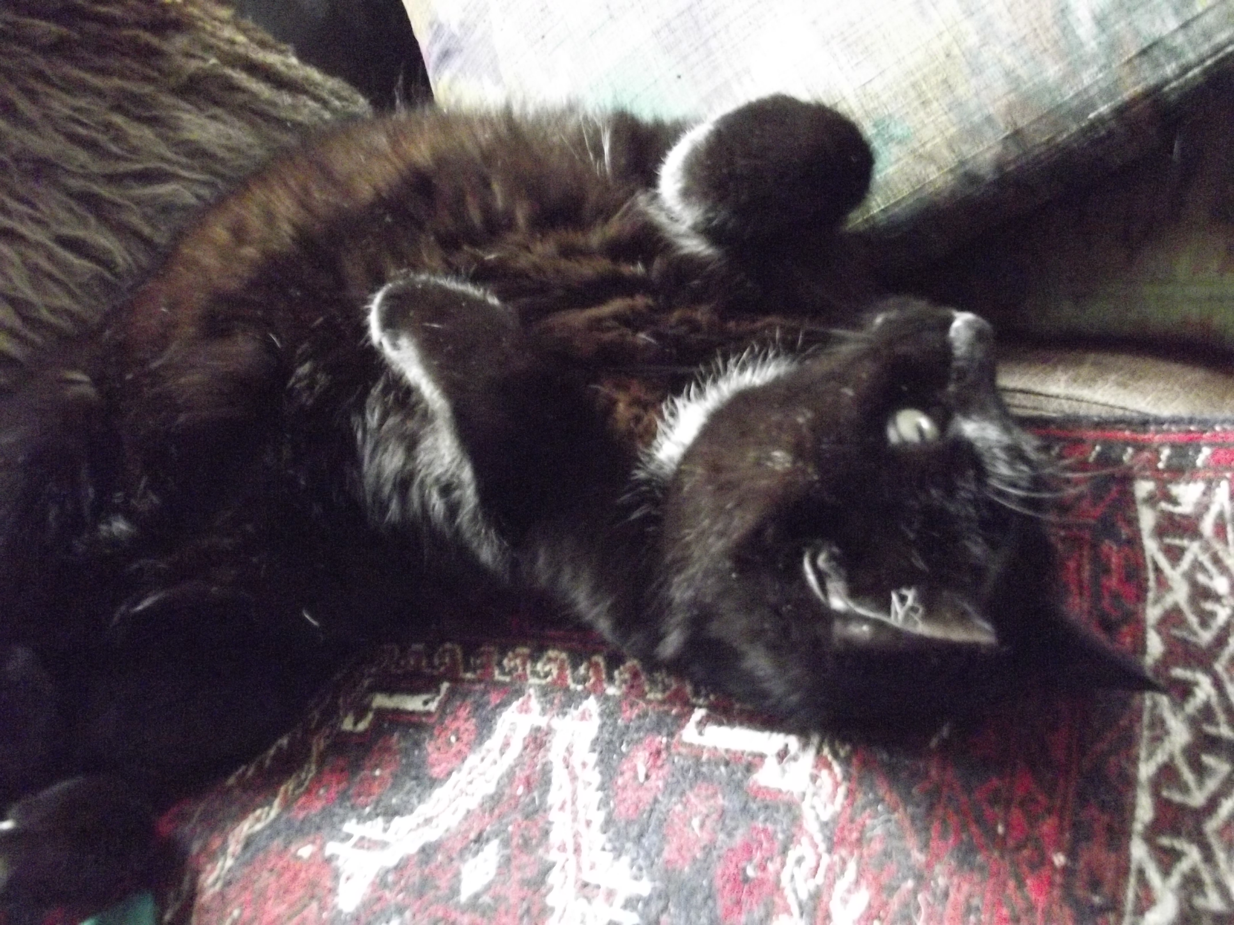 Black house cat lying on the back